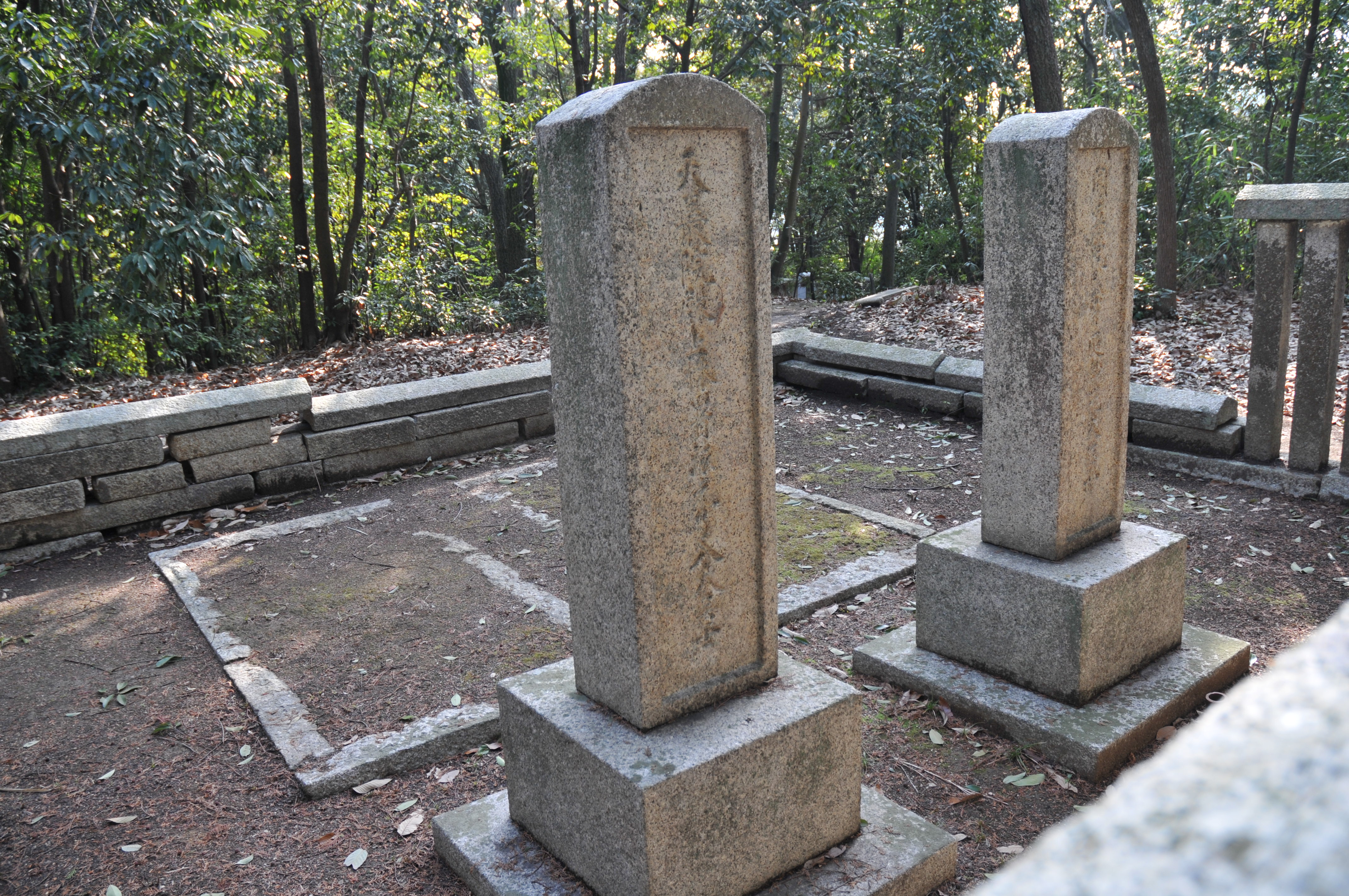 graves of Ikeda Yoshitaka(left, 2nd family head) and his wife